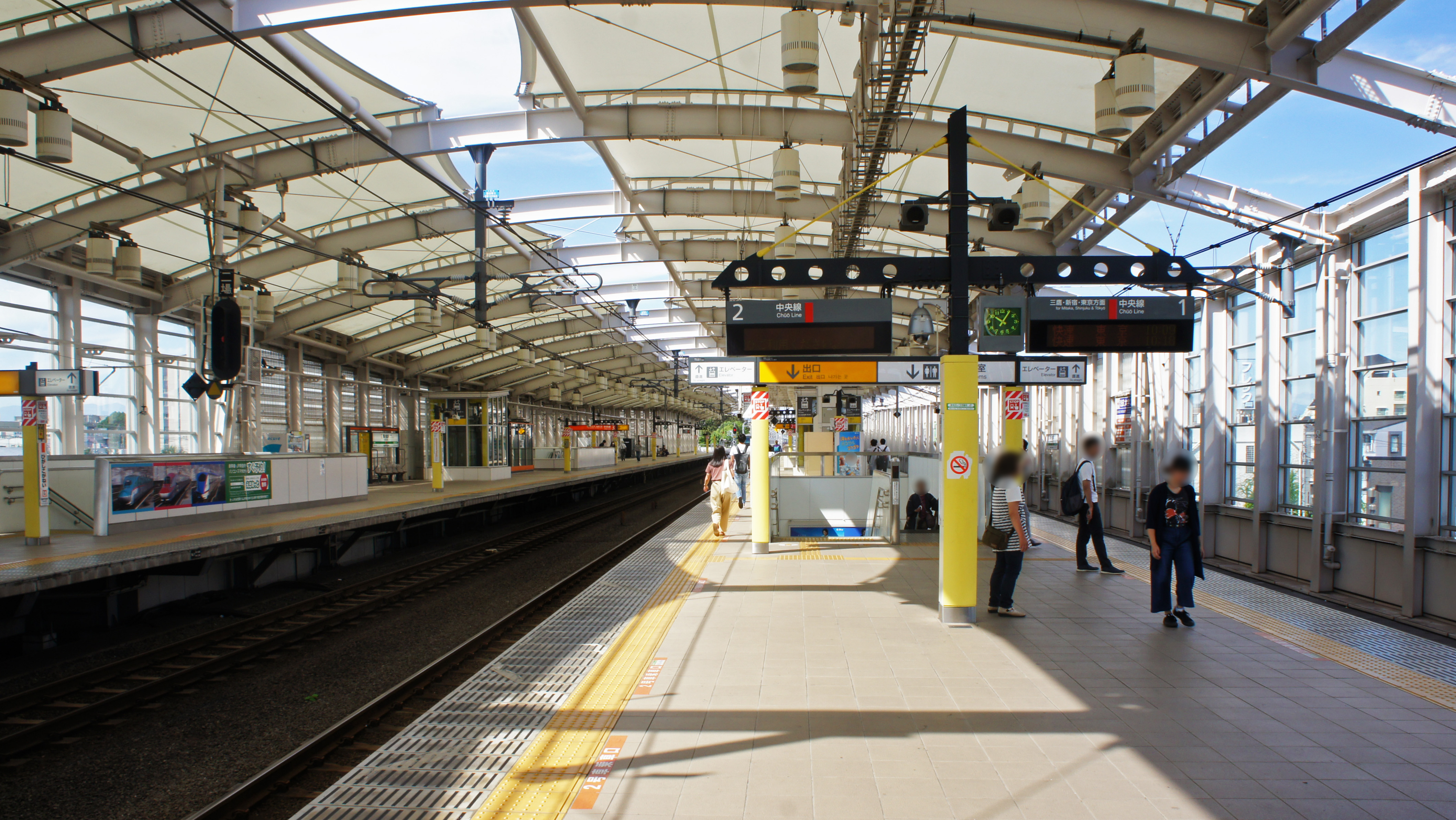 Platform of JR Chuo-Main-Line Higashi-Koganei Station